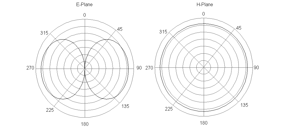 This diagram was created by Konrad Roeder. It has been released into the Public Domain. This is an ideal radiation pattern for a dipole antenna. If the dipole is positioned vertically, then the E-Plane is a cross section of the radiation pattern looking from the side and the H-Plane is looking down along the axis of the antenna. If the dipole is positioned horizontally, then the E-Plane is looking down on the antenna and the H-Plane is looking out along the axis of the antenna.